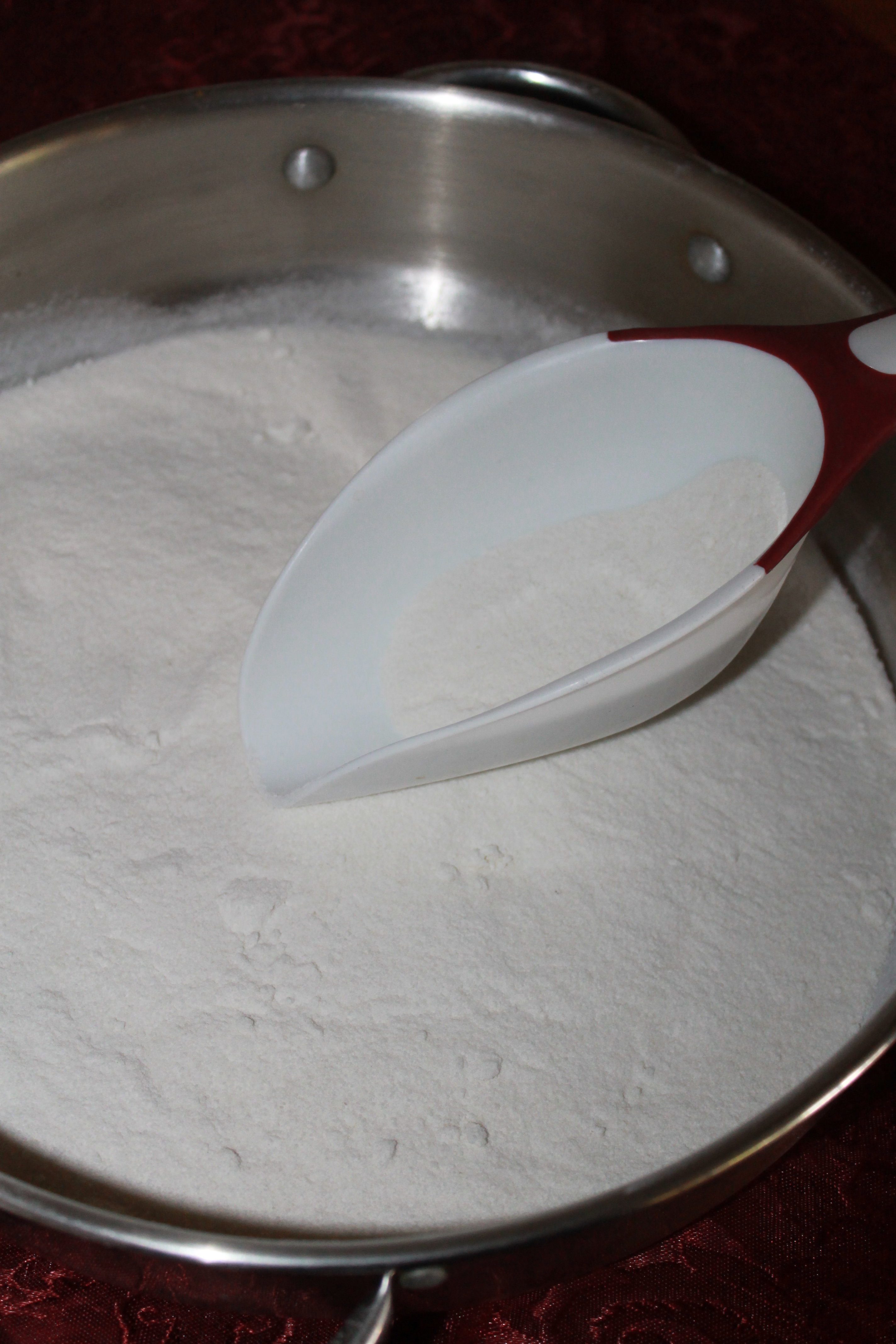 Homemade rice flour